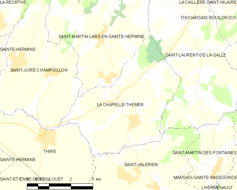 Map of French municipality La Chapelle-Thémer